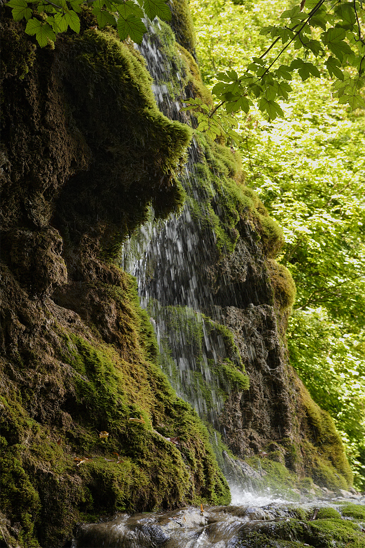 Detail of Calcareous tuff and moss. The tufa nose is a sediment, which precipitats chemically from freshwater at ambient temperature. karst springs emerge from rock walls of the „Albtrauf“ (escarpment of the Swabian Alb). At this location the water formed a large terrace of Kalktuff. Beyond the terrace the water’s calcium carbonate precipitates over fresh moss and produces a continually growing bulge, before the water drips down a steep slope. On the slope more calcium carbonate is precipitated and a rich vegetation develops amongst the sludgy mass. The location is called “Gütersteiner Wasserfall”.